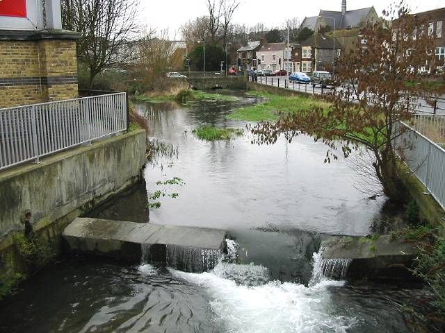 Small weir on the river Dour Change to Dour from River